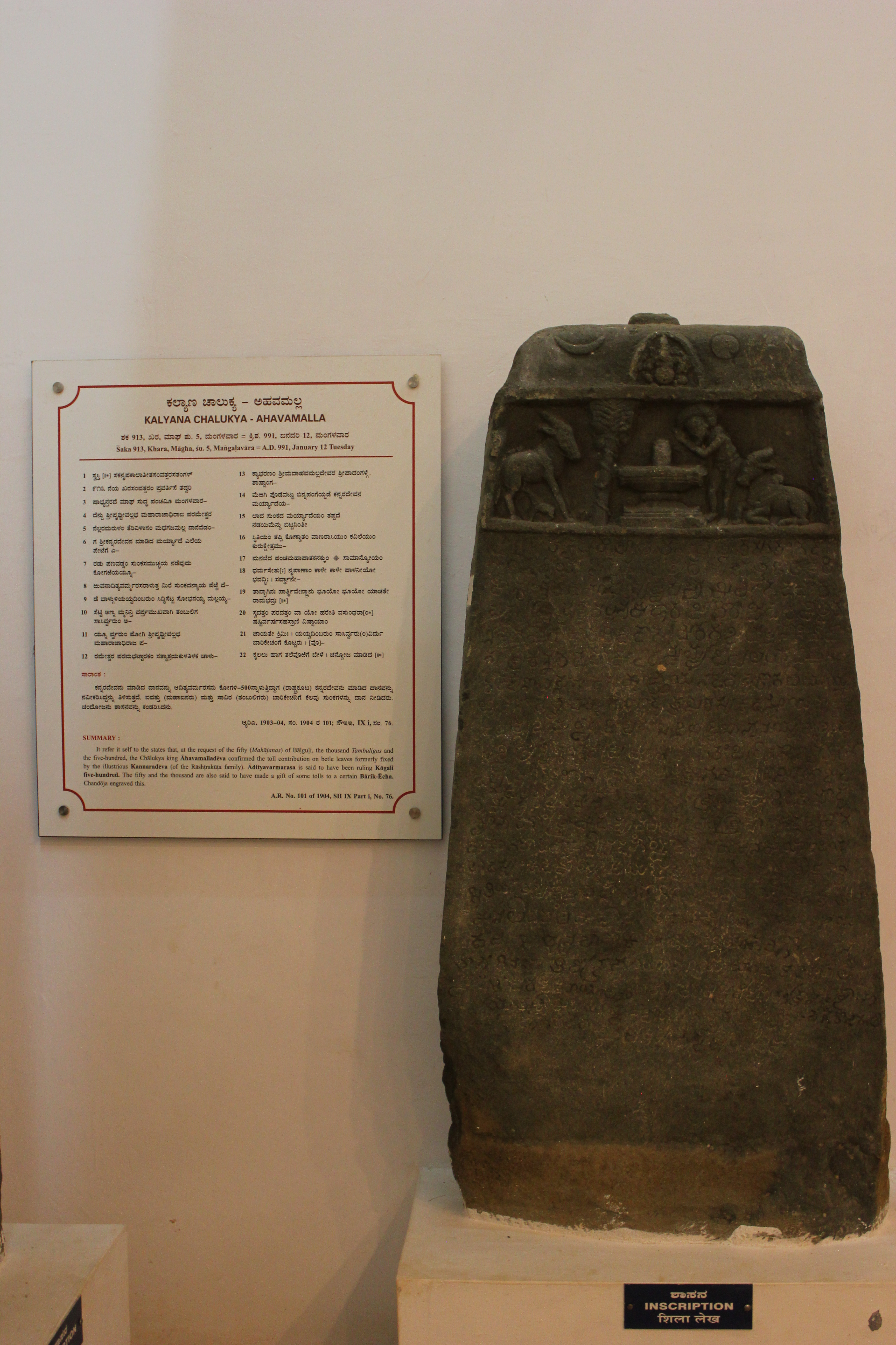 This photograph was taken by me at the ASI museum at Bagali (known as Balgali in ancient inscriptions), Davangere district, Karnataka state, India.